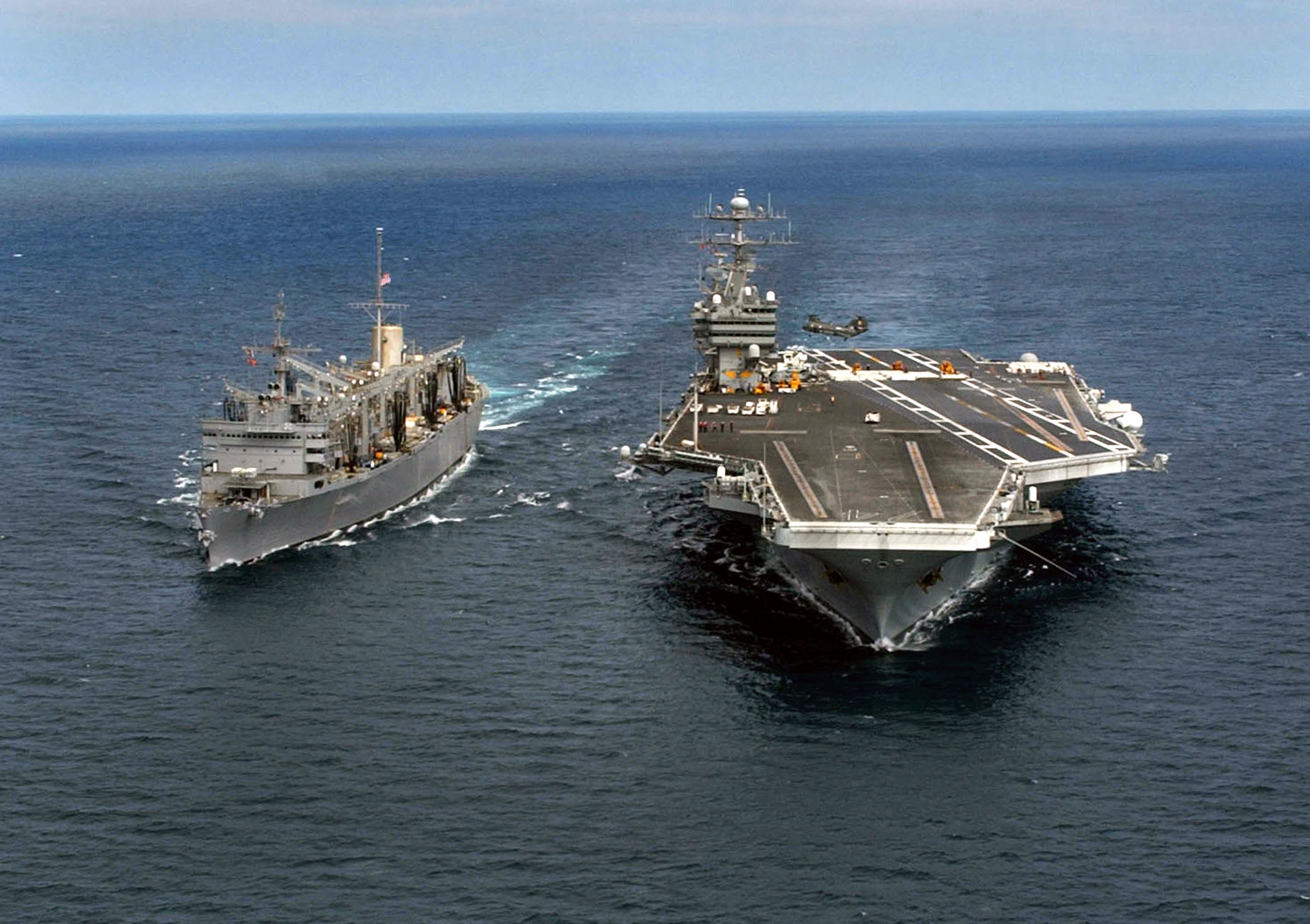 The U.S. Navy aircraft carrier USS John C. Stennis (CVN-74) performs an underway replenishment (UNREP) with the fast combat support ship USS Sacramento (AOE-1) in the Pacific Ocean. Stennis spent over nine hours alongside Sacramento transferring over 900 pallets of ordnance and supplies.